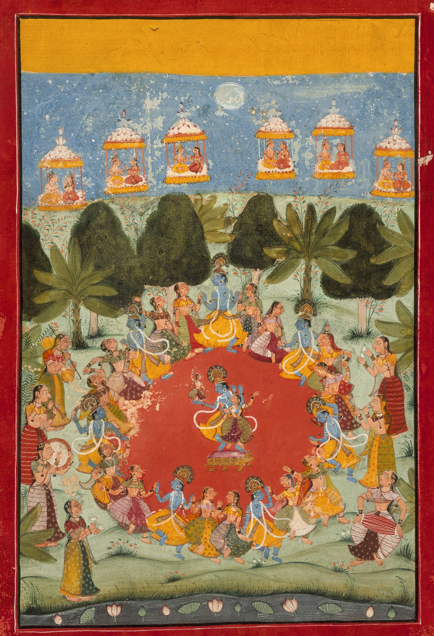 India, Rajasthan, Bundi, circa 1675-1700 Drawings; watercolors Opaque watercolor and gold on paper Image: 11 7/8 x 8 1/2 in. (30.16 x 21.59 cm); Sheet: 14 3/8 x 9 3/4 in. (36.51 x 24.76 cm) Museum Acquisition (M.75.66) South and Southeast Asian Art